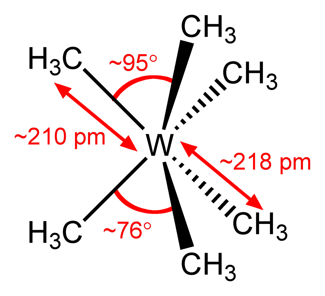 Structural formula (annotated with bond lengths and angles) of the hexamethyltungsten molecule, W(CH3)6.